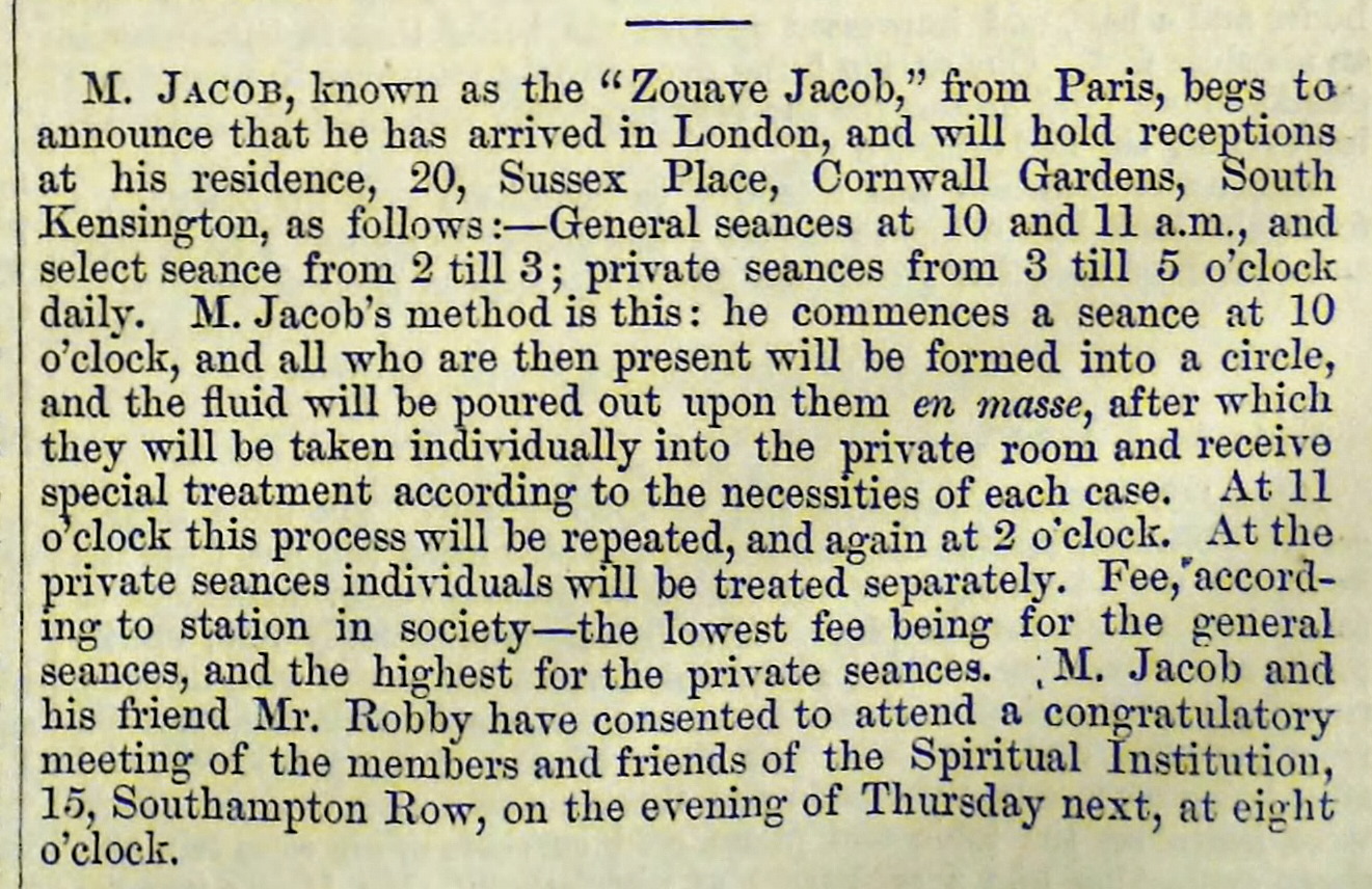 The Medium and Daybreak, p. 5/